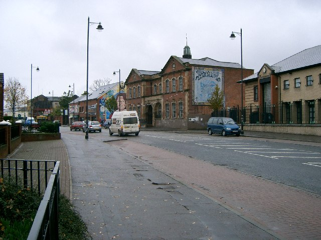 The Falls Road Library.